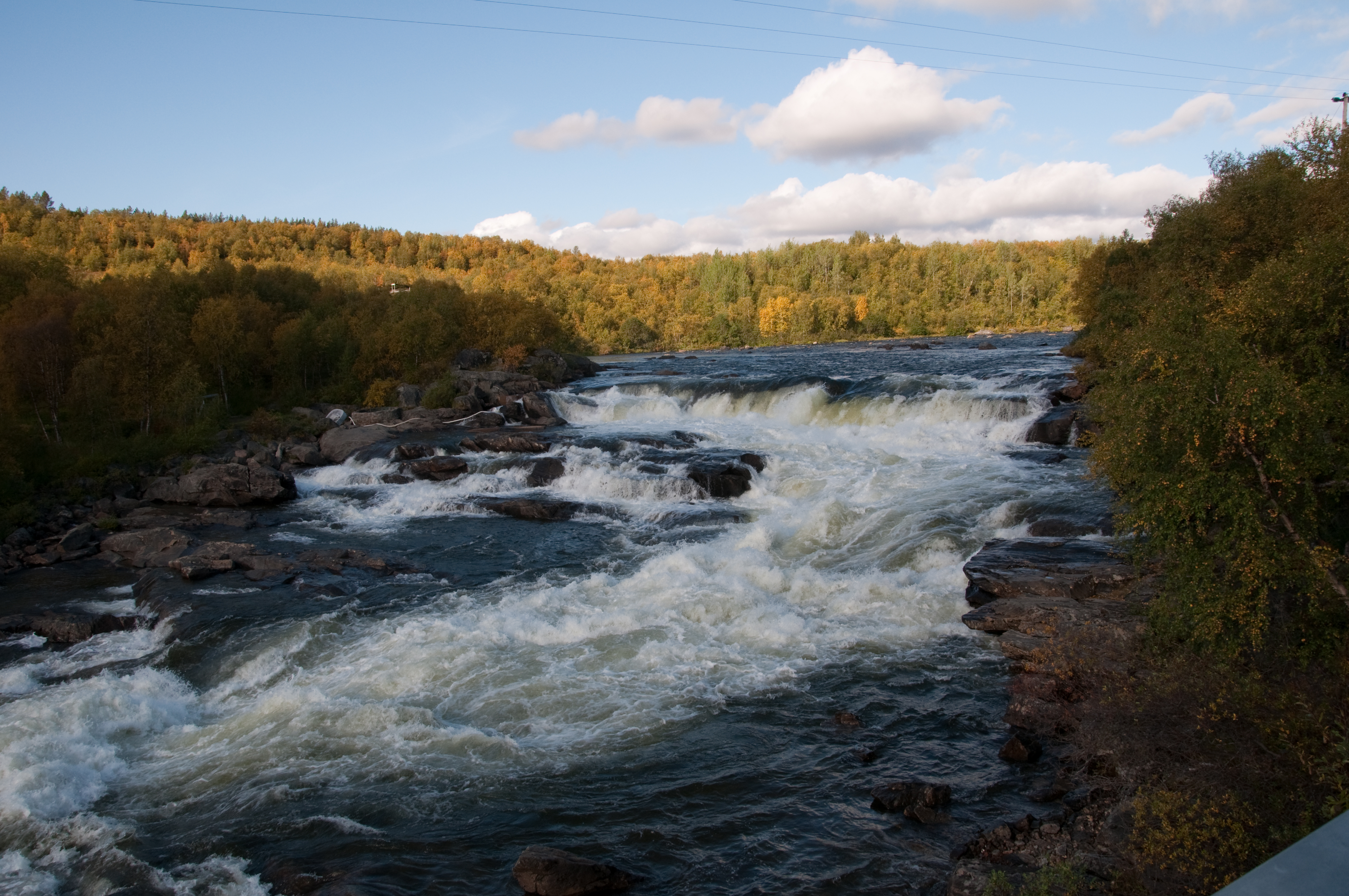 Rapid near Neiden Bru in Norway